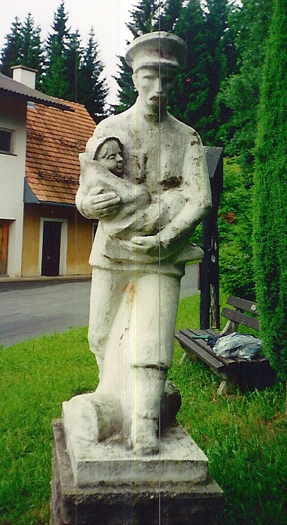 THE RUSSIAN (Prisoner of war) after a poem by Hans Kloepfer by Carl Hermann, in Wielfresen before Eibiswald on the northern South long-distance-trail 05 (E6) Nebelstein - Eibiswald.